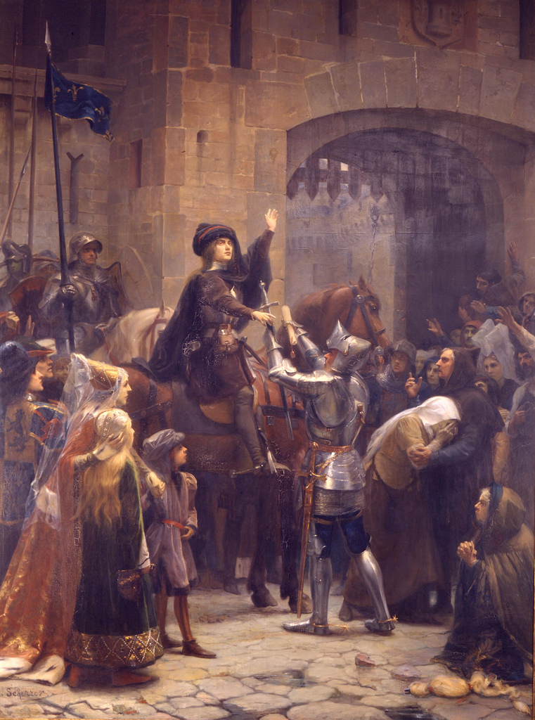 Painting by Jean-Jacques Scherrer of Joan of Arc at Vaucouleurs titled: "The Departure of Jeanne d'Arc"